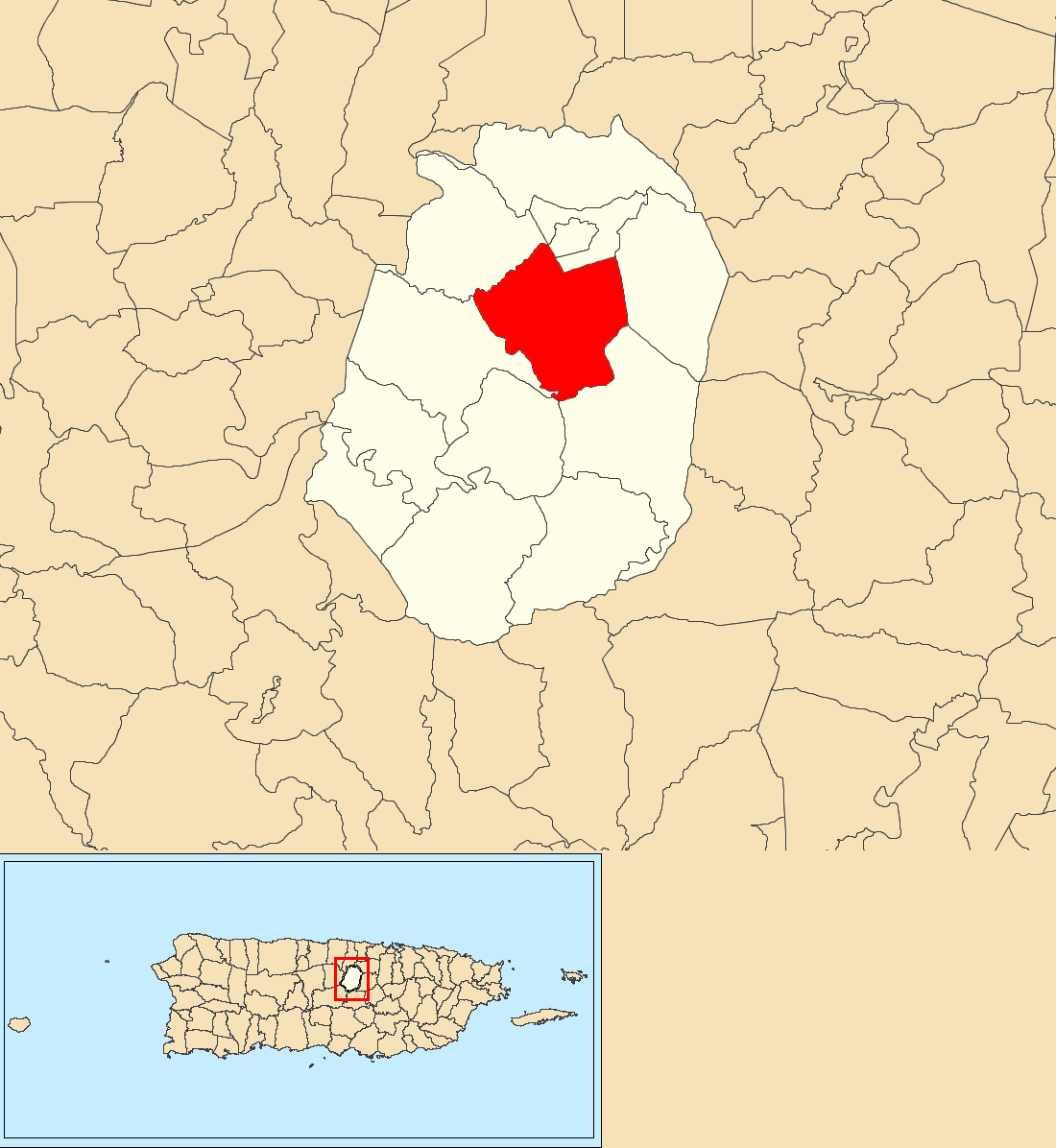 Dos Bocas, Corozal, Puerto Rico locator map